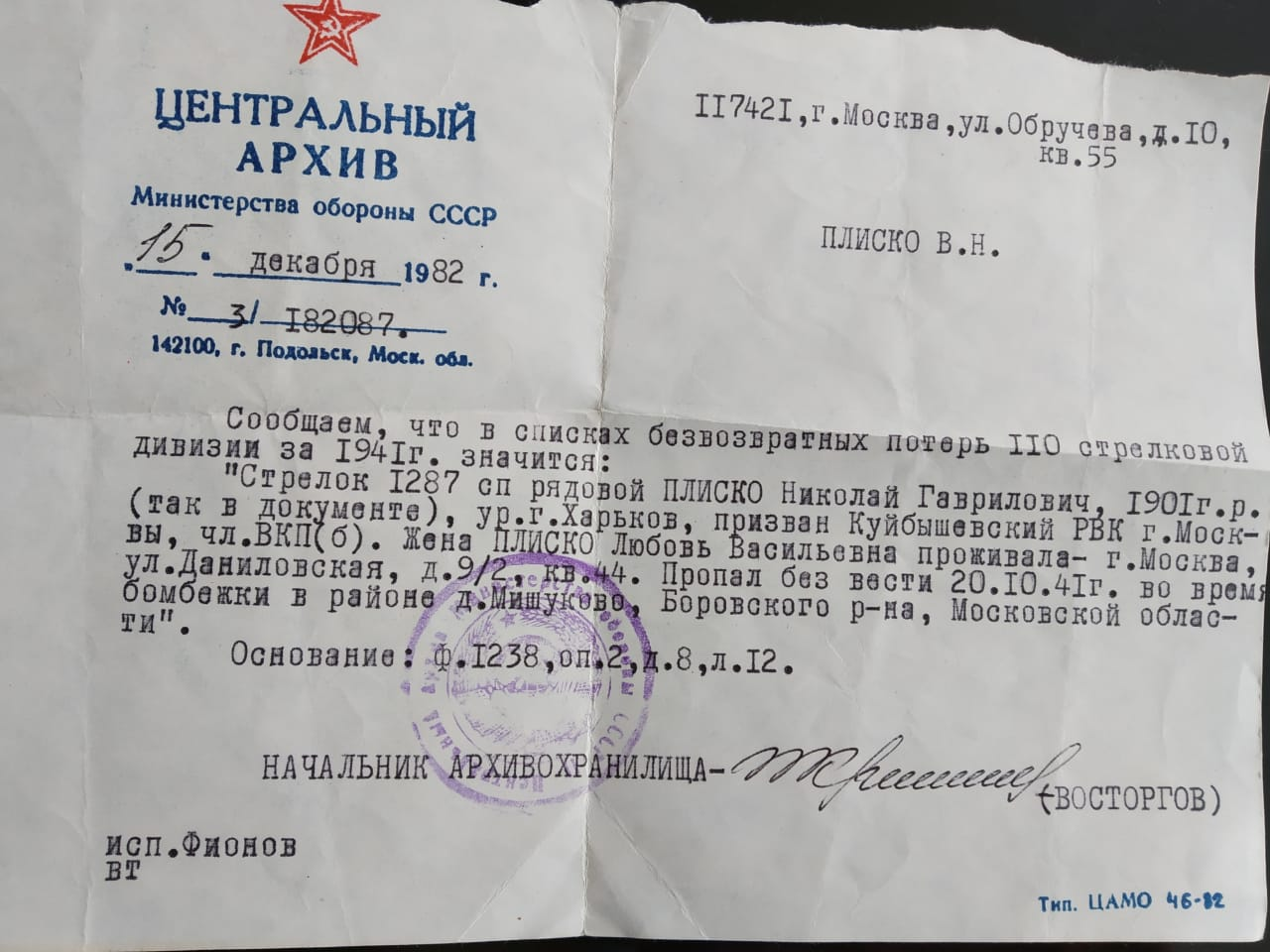 Плиско Николай Гаврилович. Документ Центрального архива